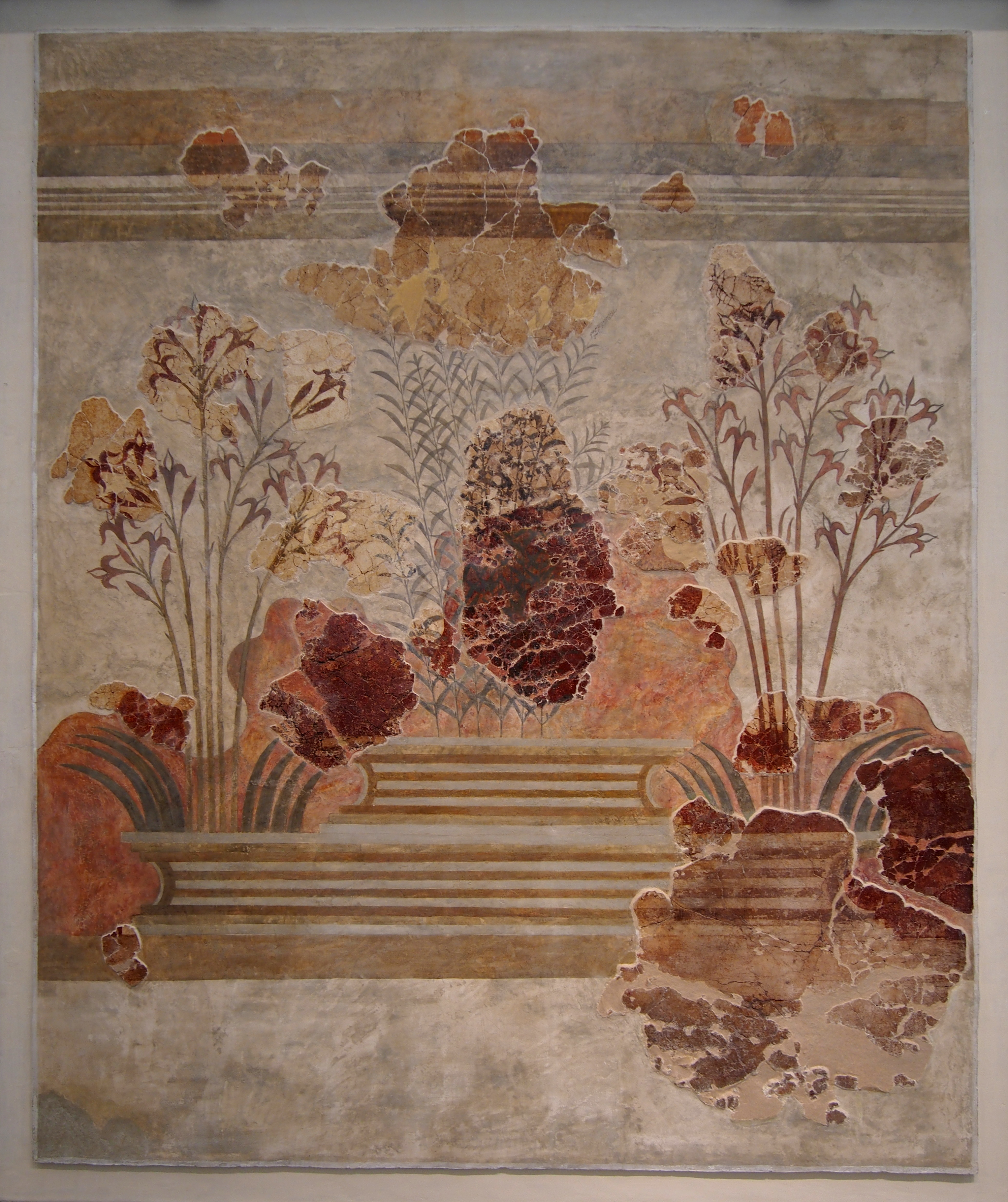 Part of the Lily fresco, here depicting red lilies against a white ground.